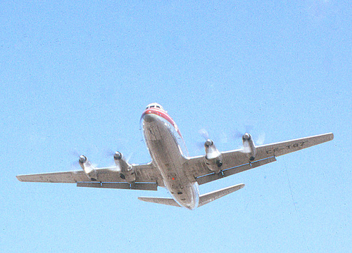 An airliner frequently seen in the 1960's. A bridge between piston-engined and pure jet airliners. (The captain wasn't about to demonstrate a wheels-up landing, by the way. This was a low pass at an airshow in, if memory serves, Wetaskiwin, Alberta).